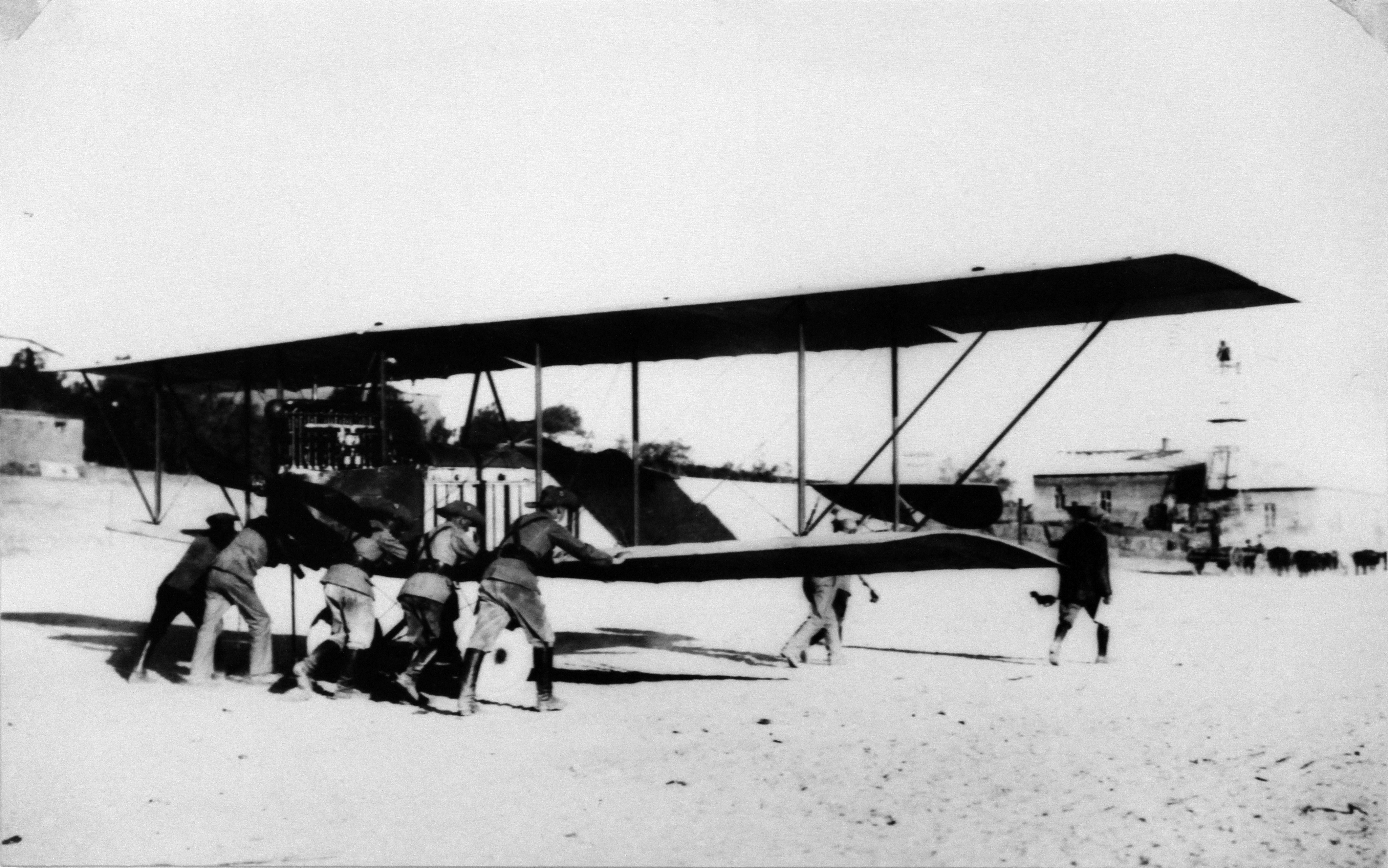 Aviatik B (P.14) aircraft of the Schutztruppe (Protecion force) in German Southwest Africa (today Namibia)